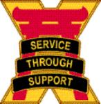 Distinguished Insignia of the 10th Support Group